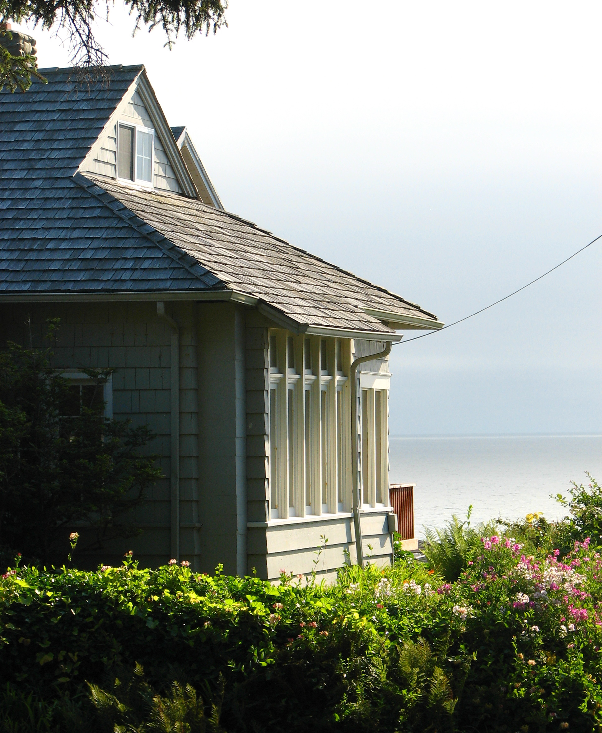 The historic A.E. Doyle Cottage (built ca. 1915), located at 37480 2nd Street in Manzanita, Oregon, United States, is listed on the US National Register of Historic Places.